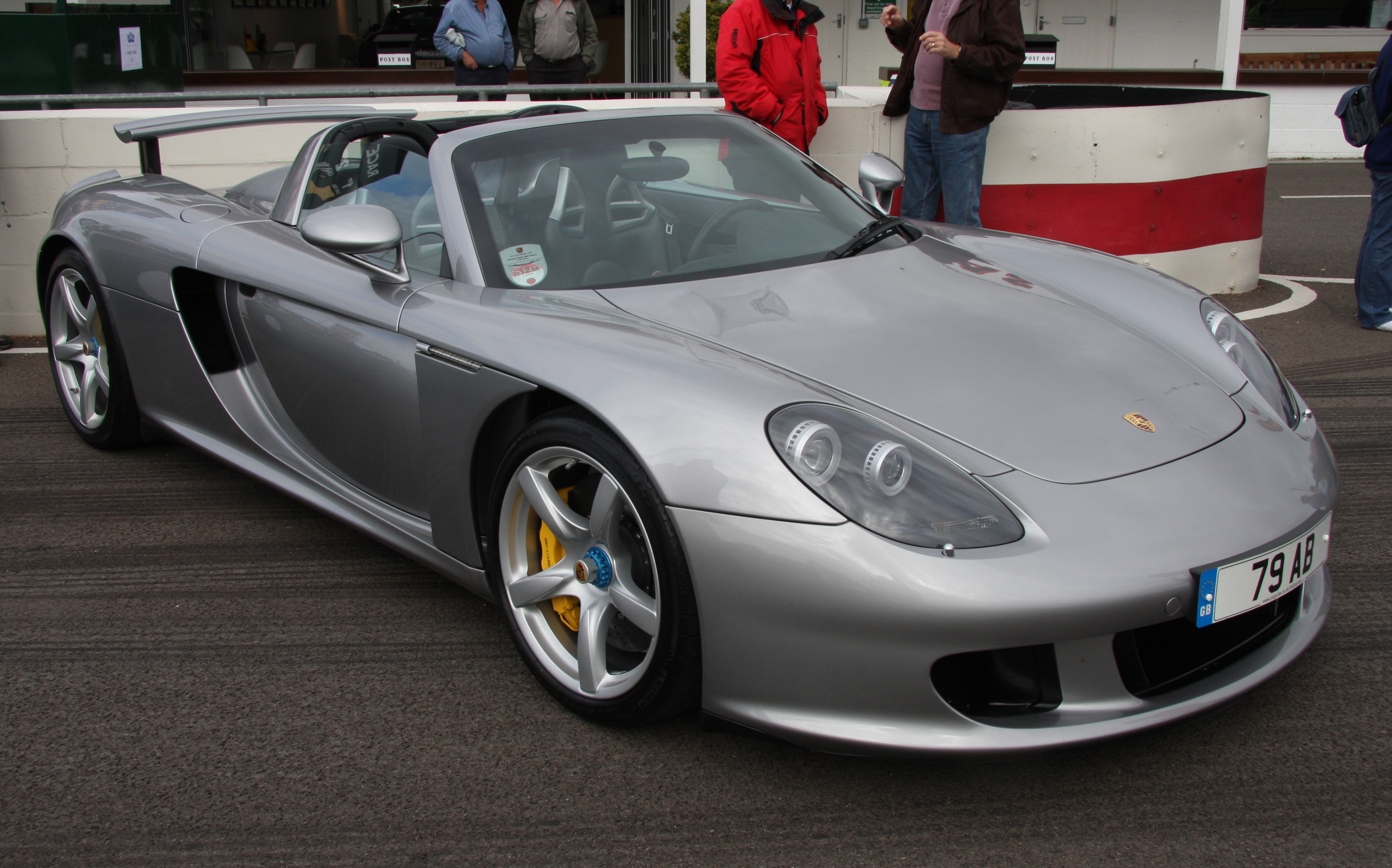 Porsche Carrera GT at the Goodwood Breakfast Club, July 2008.Porsche Carrera GT